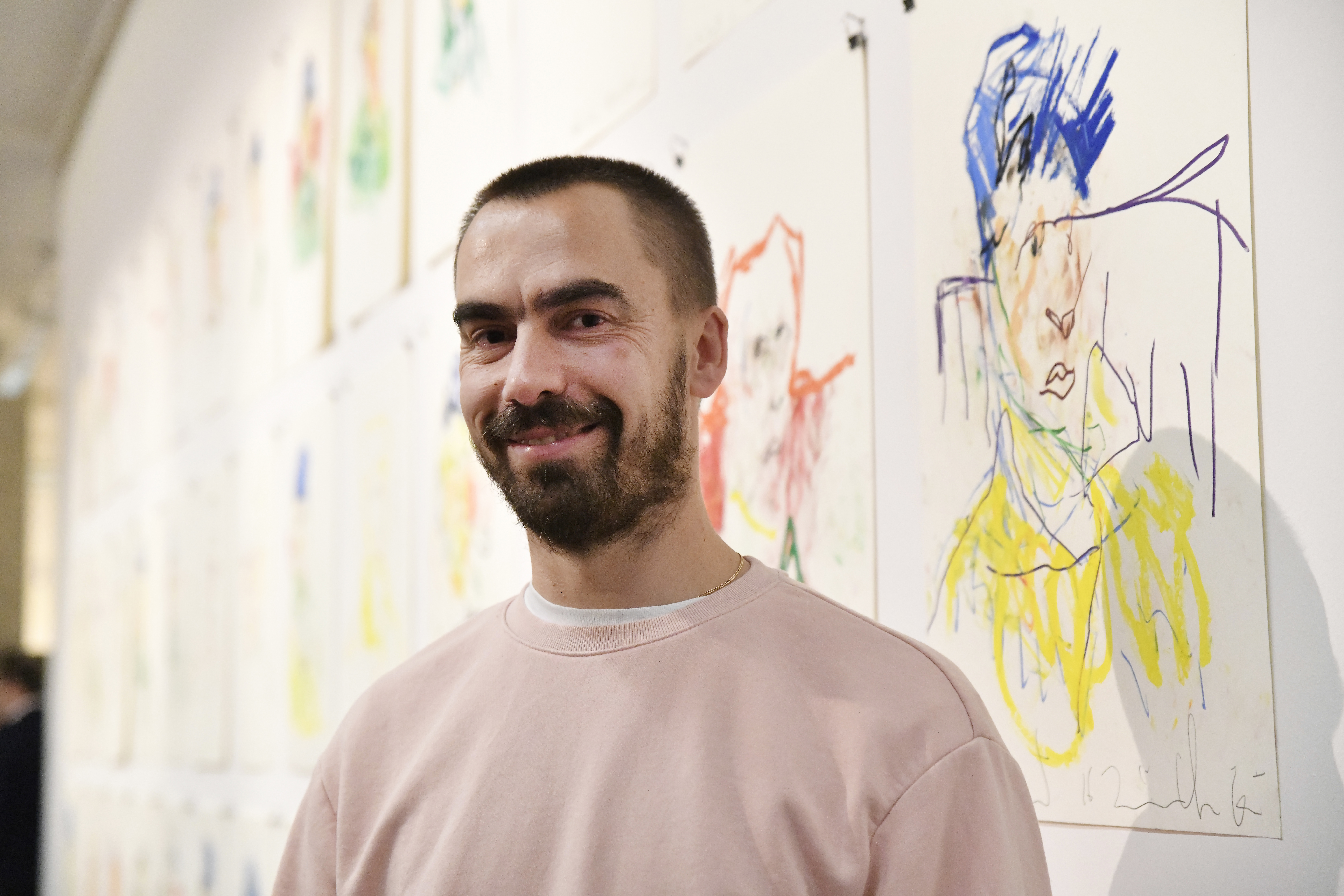 Kunsthaus Zürich / Guillaume Bruère - 23.05.2019 © Caroline Minjolle